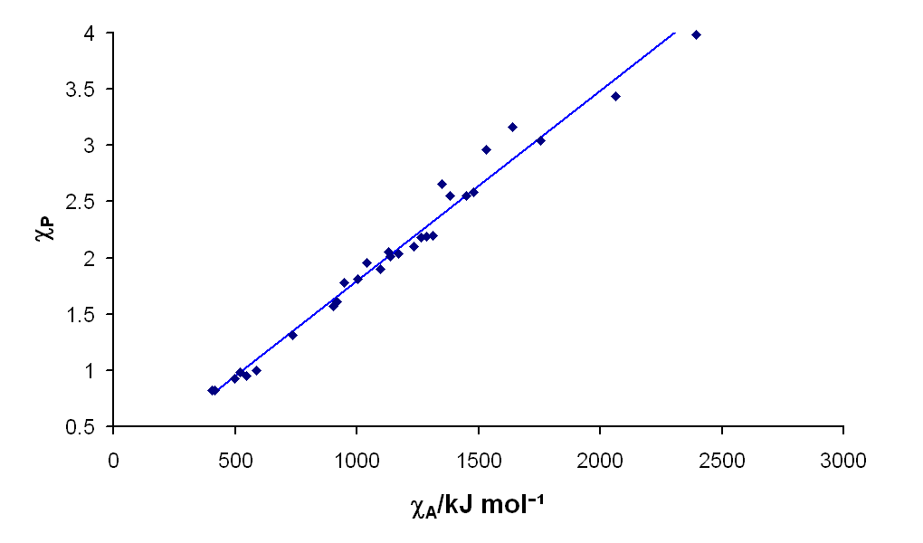 The correlation between Pauling electronegativity (y-axis, revised values) and Allen electronegativity 5x-axis, in kJ/mol)